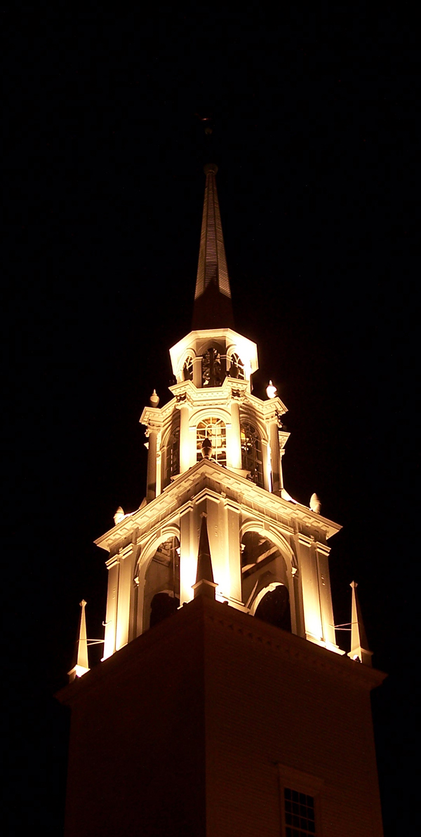 First Religious Society (Unitarian), built 1801, Newburyport, Mass.